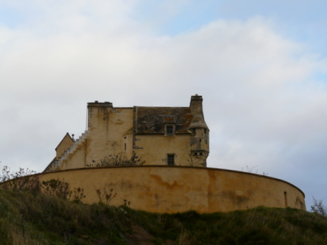 Ballone Castle from the shore